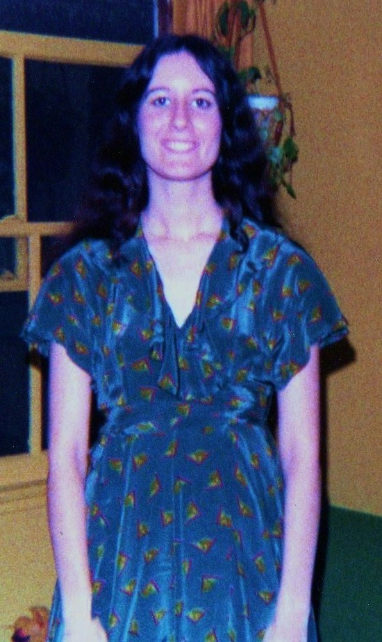 Young woman wearing a wrap-around disco dress typical of the late 1970s